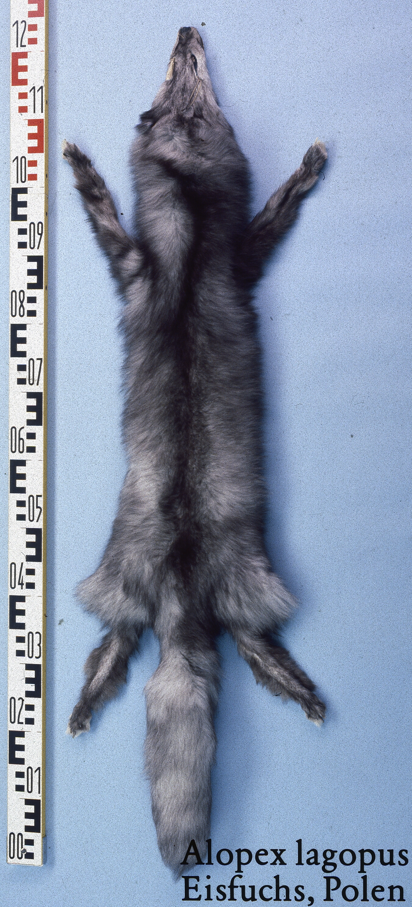 Blue fox fur skin (Alopex lagopus), Poland. Fur skin collection, Bundes-Pelzfachschule, Frankfurt/Main, Germany